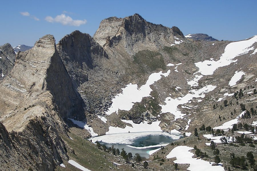 Verdi Lake in the Ruby Mountains of Nevada, looking south from the Ruby Crest. Above the lake are two of the three Verdi Peaks.